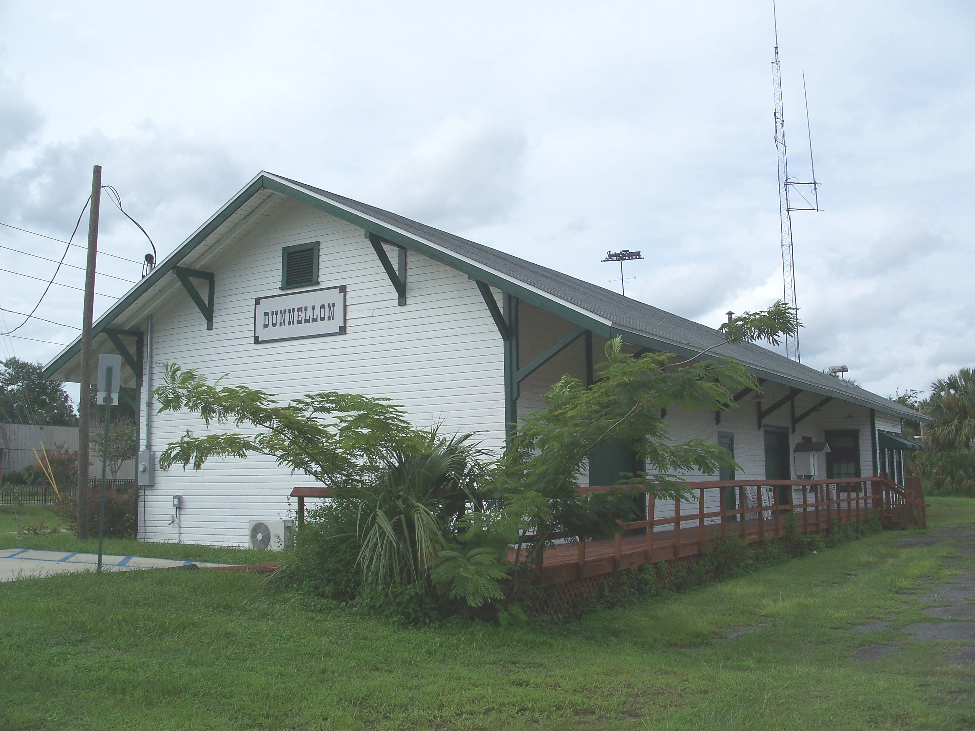 Dunnellon, Florida: Old Atlantic Coast Line Train Station